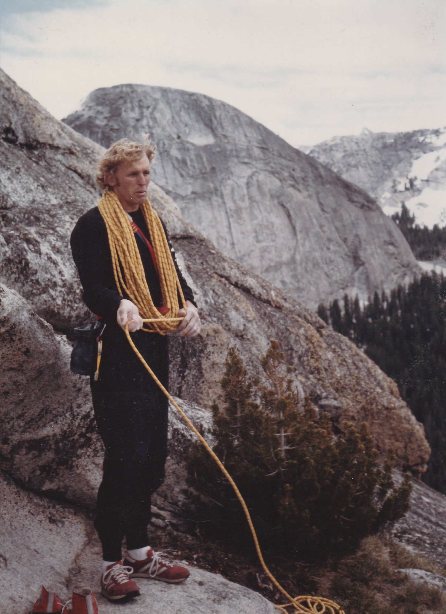 John Bachar just finished the climb "Gray Ghost," and coils his rope, mid 1980s. Photo by Pat Ament.